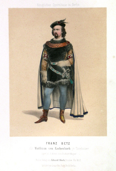 The german opera-singer Franz Betz (1835-1900)